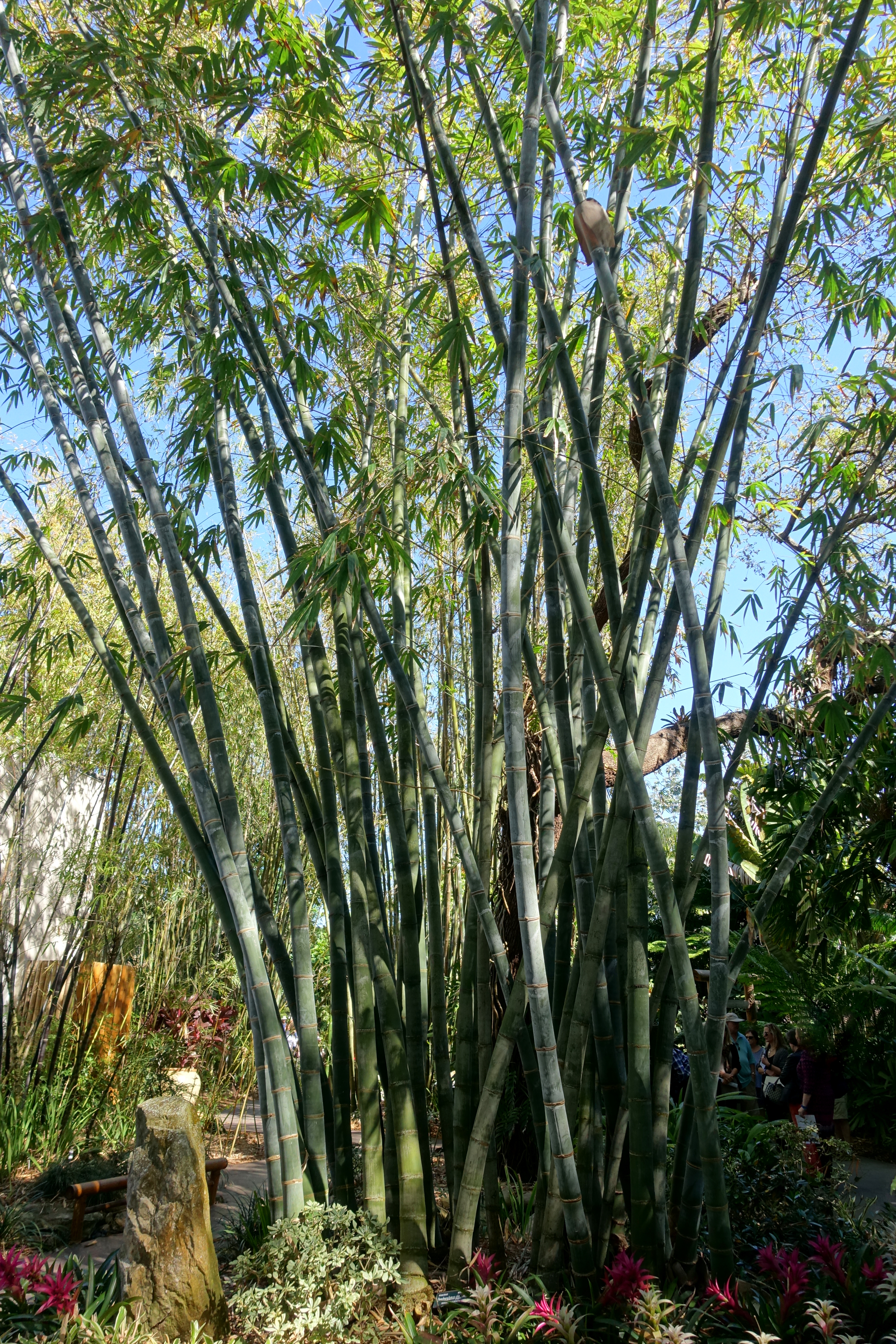 Botanical specimen in the Marie Selby Botanical Gardens - Sarasota, Florida, USA.